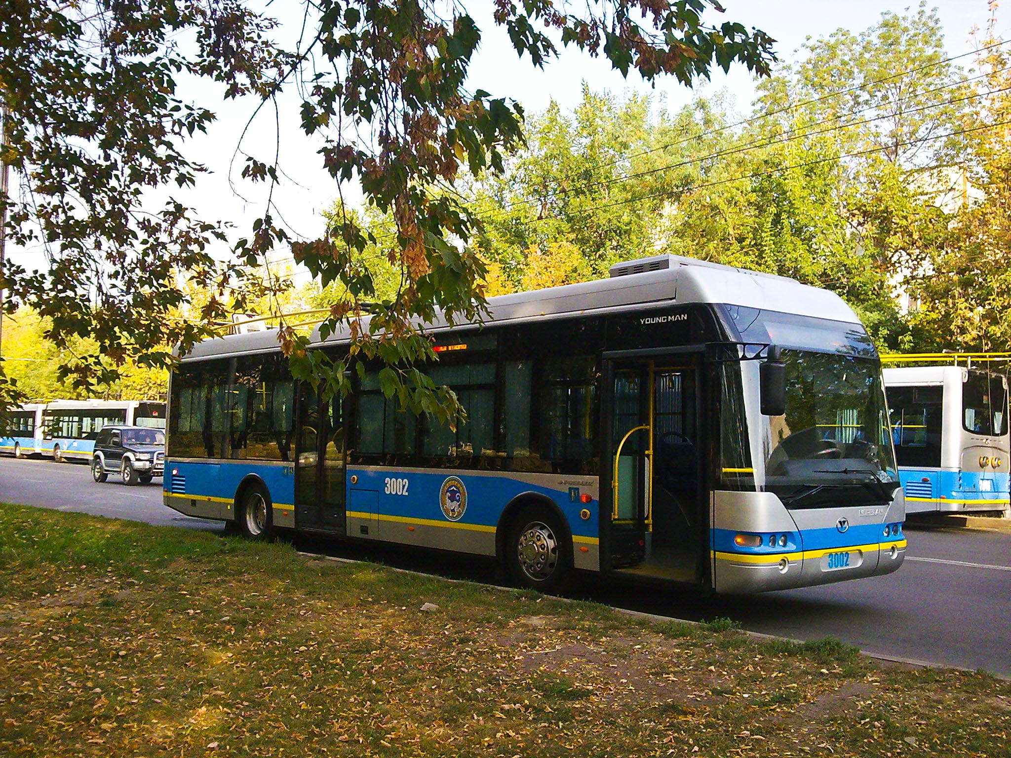 Trolleybus in Almaty city, Kazakhstan, «Neoplan Young Man JNP6120GDZ».